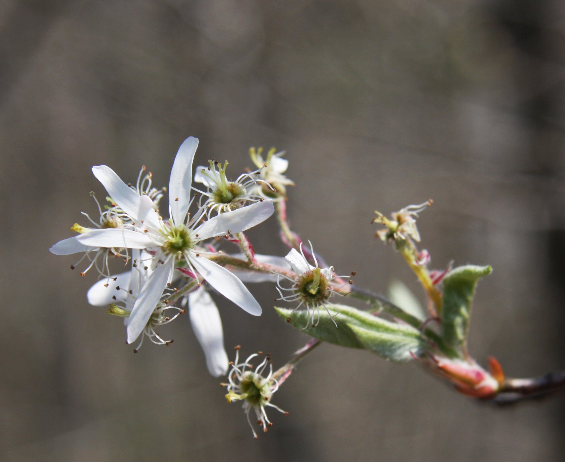 Downy serviceberry (Amelanchier arborea), closeup of flowers showing cuplike base, 5 narrow white petals, 5-compound pistil, many stamens, and downy hairs on young leaves and twigs. Also called "sarvis", or "shadbush" because it blooms in early spring when the shad are running in the rivers. Duke Forest Durham Division, Durham, North Carolina, USA.